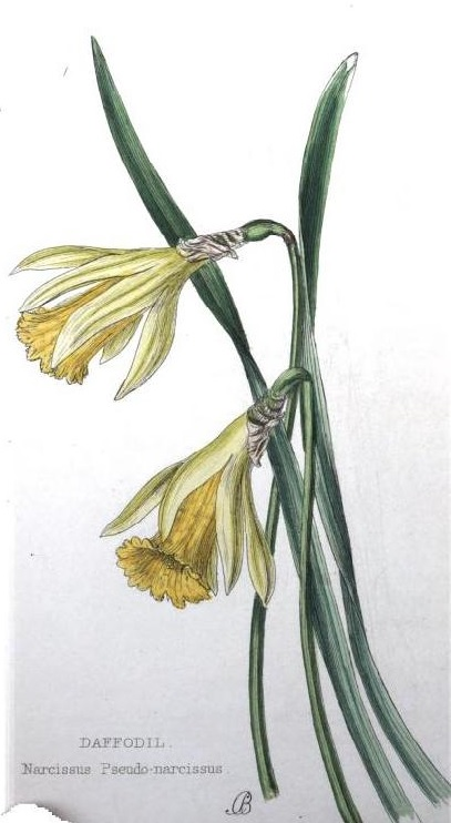 Narcissus pseudonarcissus, illustration by Mrs Berrington in Lady Wilkinson's "Weeds and wild flowers: their uses, legends, and literature" 1858